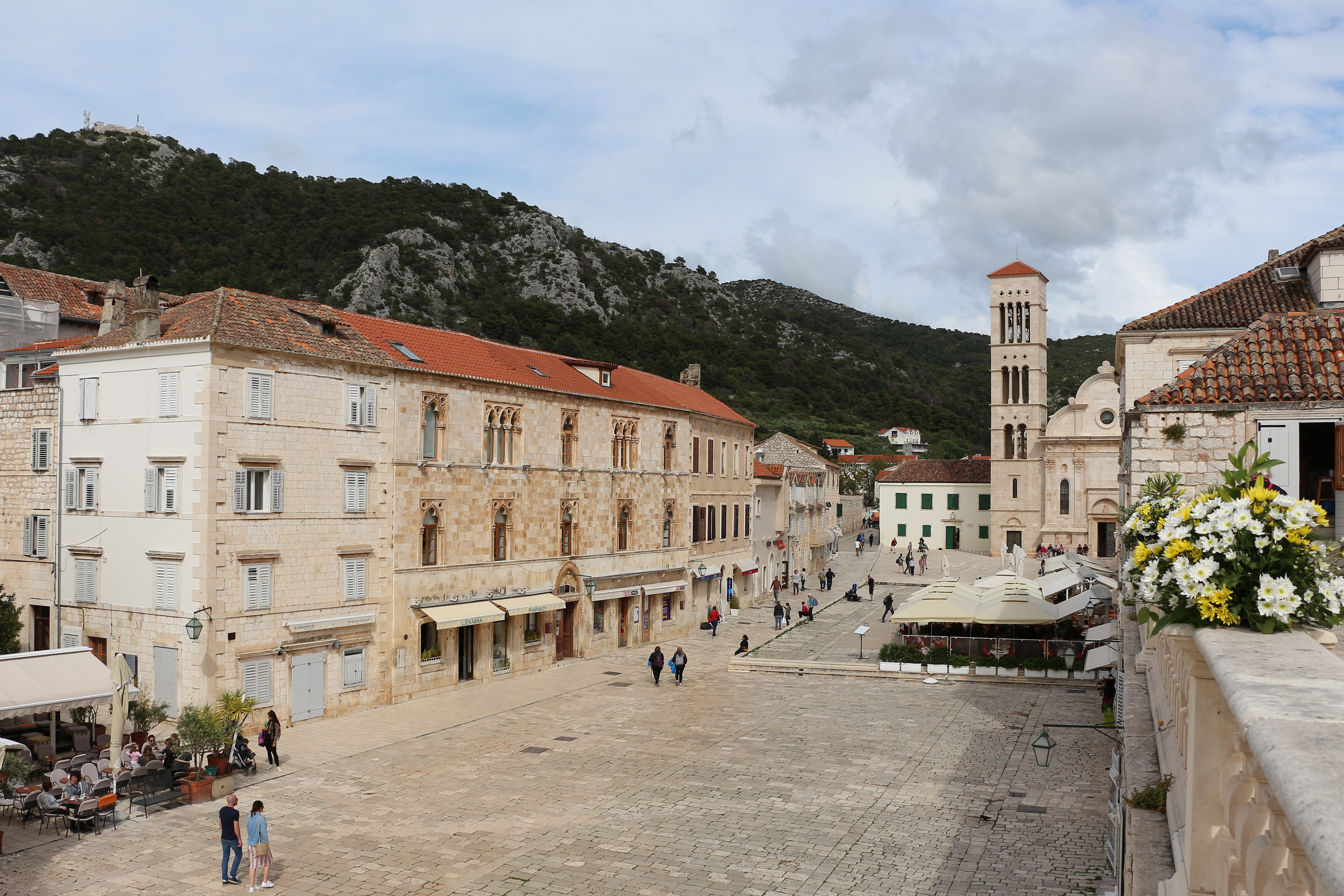 St. Stephen's Square, Hvar, Croatia